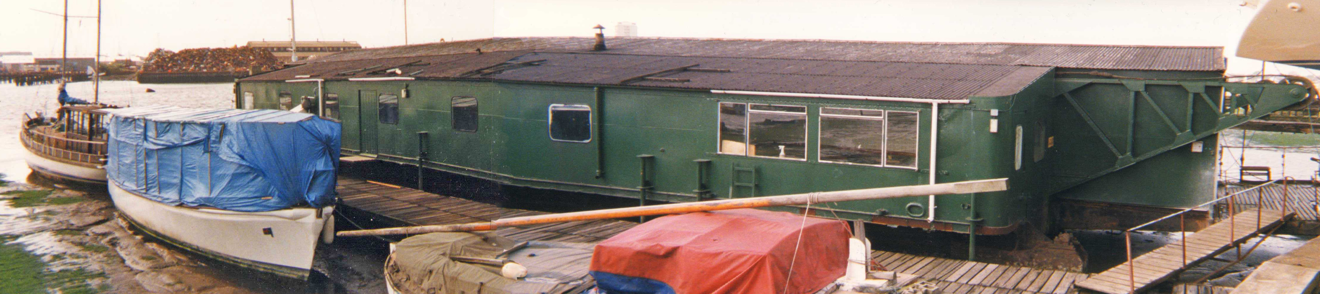 The remains of the Woolston floating bridge in (c.June 1999) on the east bank of the River Itchen South of Northam bridge and converted for use on an industrial estate as offices and works. Merge of two digitised and reversed Kodacolor negatives from Canon AE1 camera. NB original description of location on west bank was wrong